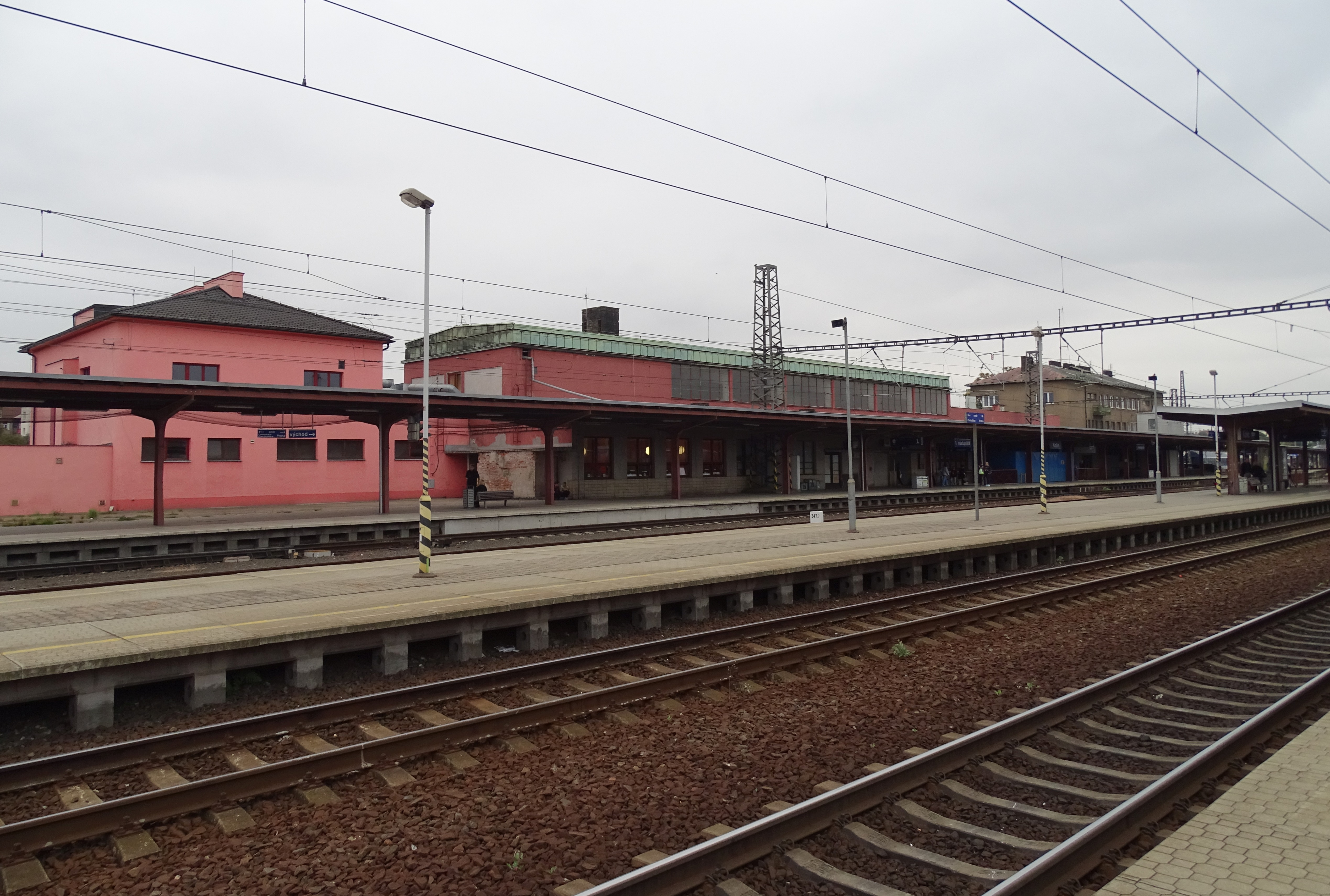 Kolín VI, Kolín District, Central Bohemian Region, Czechia, train station Kolín.